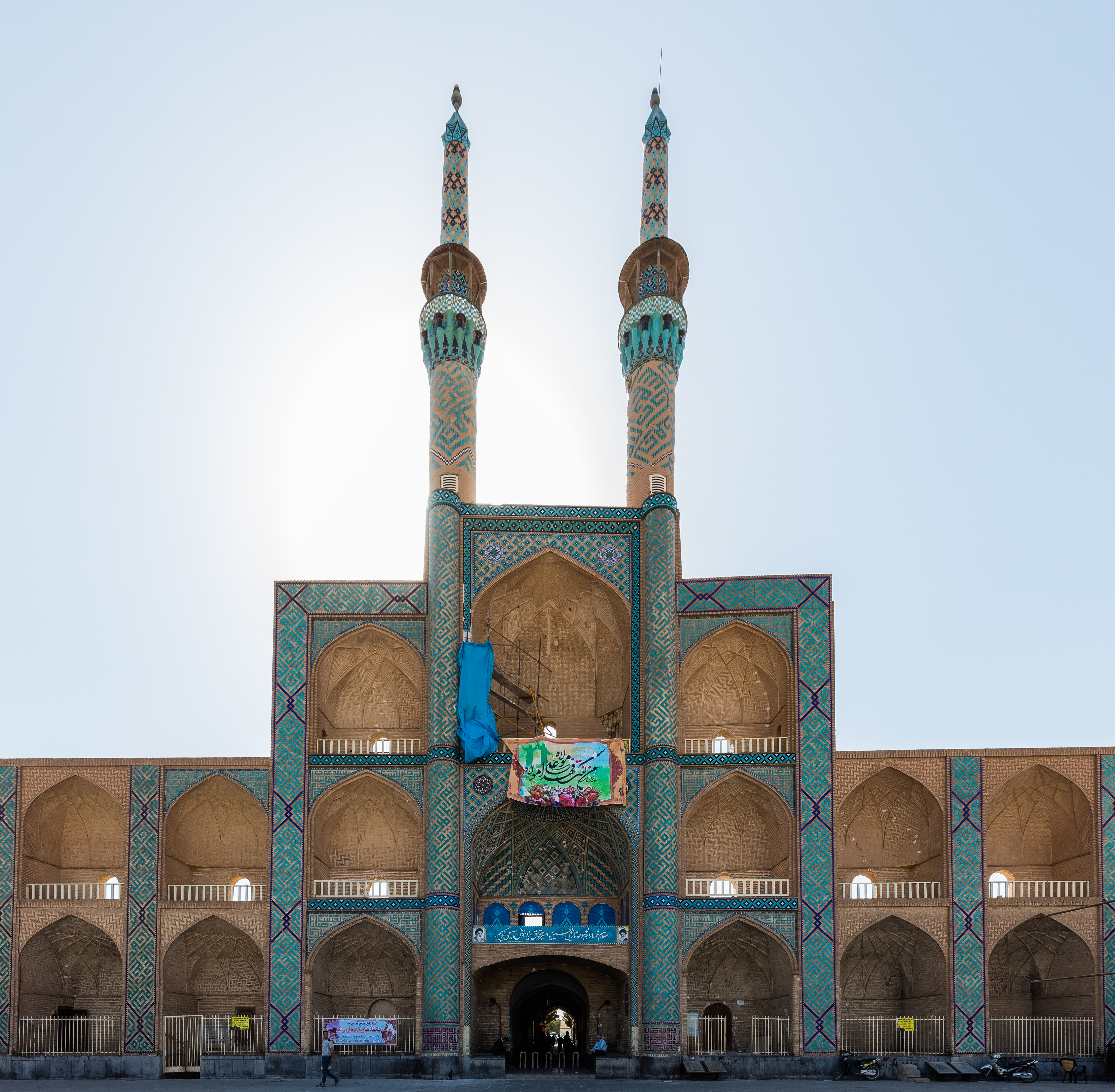 Amir Chakmaq Complex, Iran